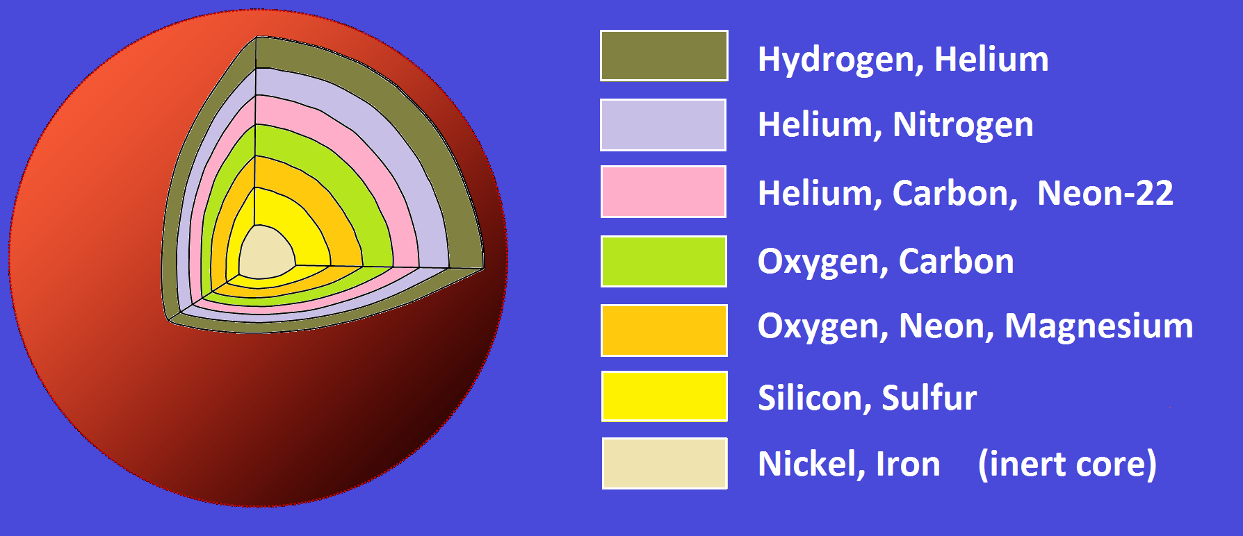 Cutaway diagram of massive star pre-collapse. Based on a tracing of Public Domain NASA diagram Nucleosynthesis in a star.gif color key version)